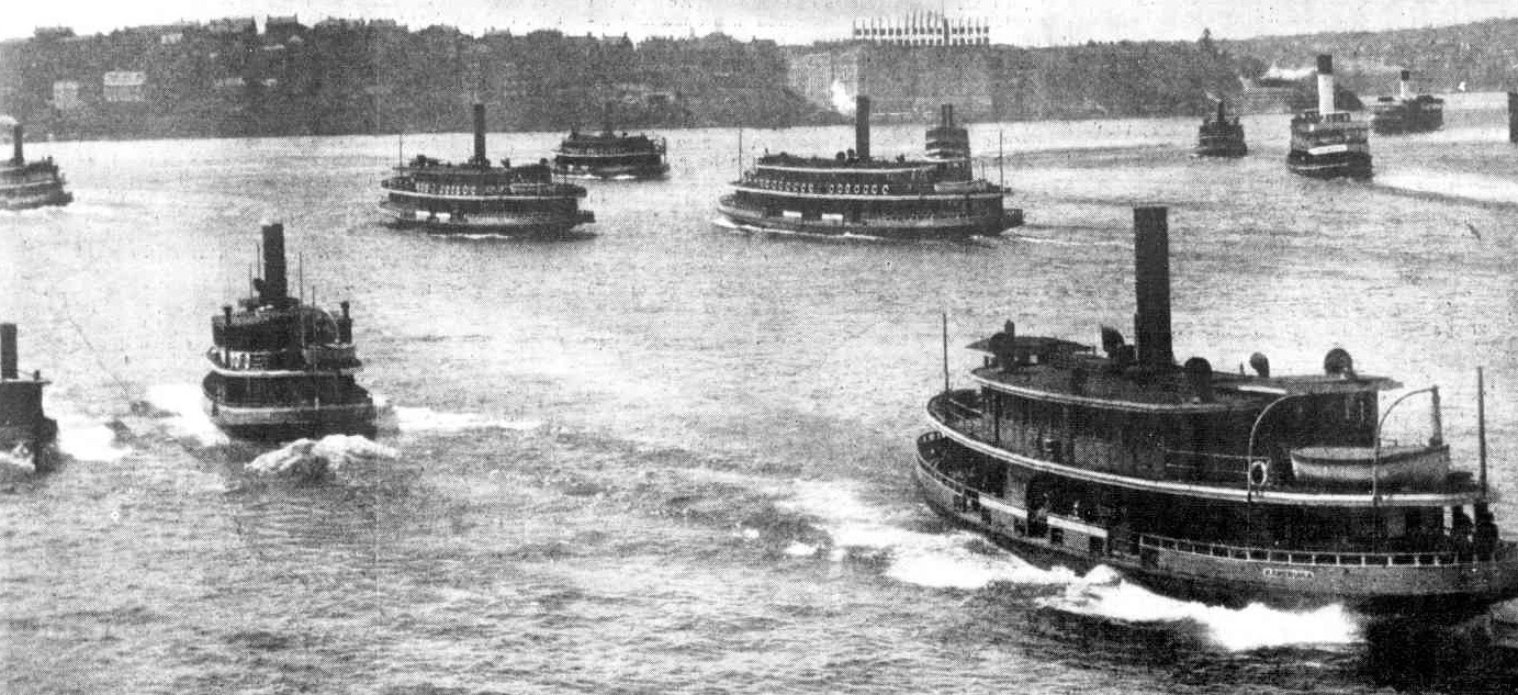 Sydney ferries at Circular Quay 1921 including KAMERUKA and other K-Class ferries and two Manly ferries